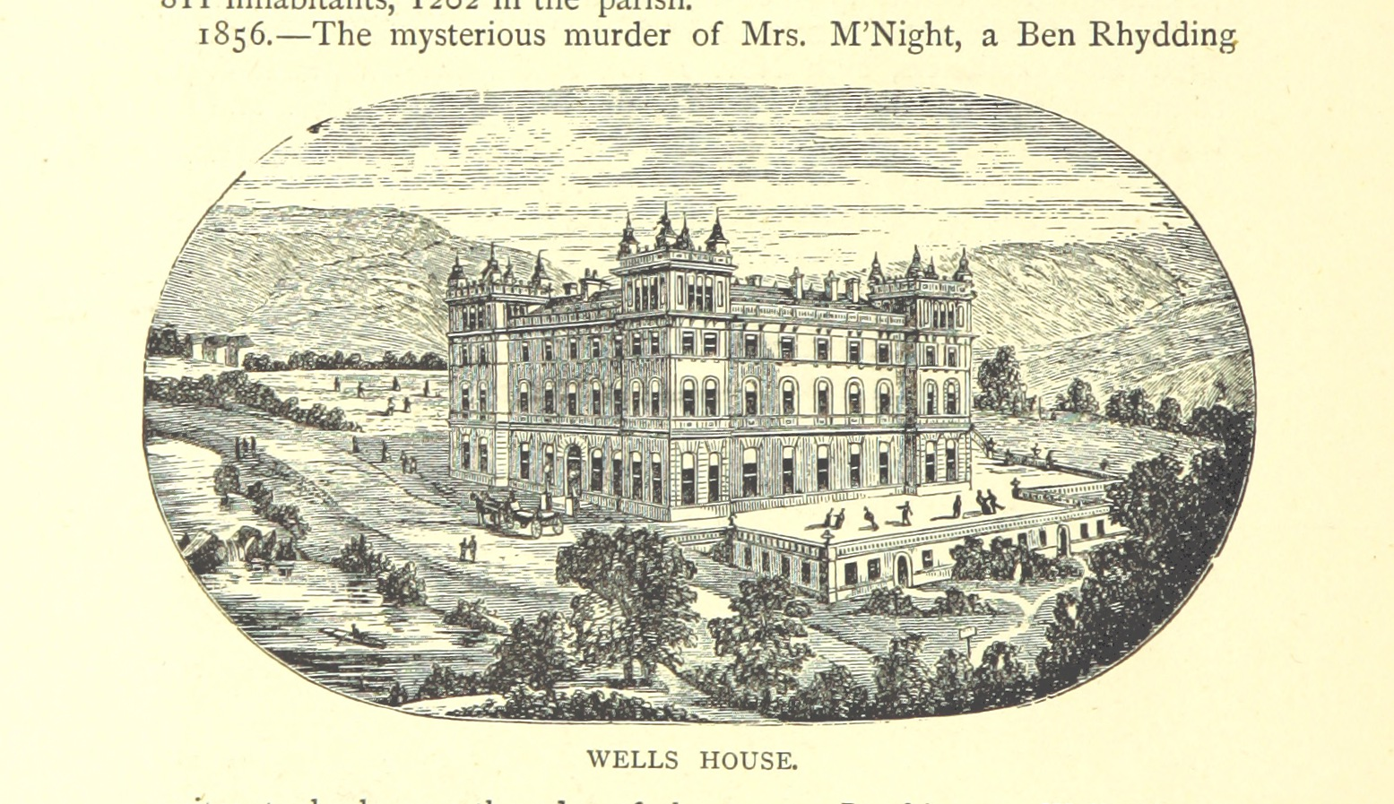 Image taken from: Title: "Ilkley, Ancient and Modern ... Eighty illustrations" Author(s): Collyer, Robert [person] ; Turner, Joseph Horsfall [person] British Library shelfmark: "Digital Store 10358.l.8" Page: 286 (scanned page number - not necessarily the actual page number in the publication) Place of publication: Otley (England) Date of publication: 1885 Publisher: W. Walker Type of resource: Monograph Language(s): English Physical description: 282, xcvi pages (4°) Explore this item in the British Library’s catalogue: 000749886 (physical copy) and 014807738 (digitised copy) (numbers are British Library identifiers) Other links related to this image: - View this image as a scanned publication on the British Library’s online viewer (you can download the image, selected pages or the whole book) Other links related to this publication: - View all the illustrations found in this publication - View all the illustrations in publications from the same year (1885) - Download the Optical Character Recognised (OCR) derived text for this publication as JavaScript Object Notation (JSON)